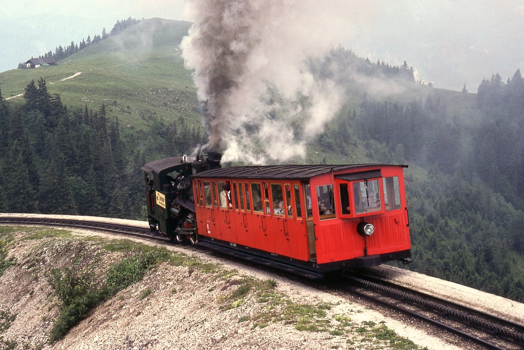 A Schafbergbahn steam train above Schafbergalpe station.